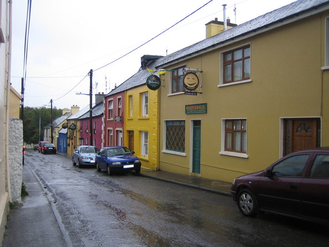 Caisleán Ghriaire (Castlegregory) View taken looking down Main Street, with a fine "Guinness is good for you" sign above Fitzgerald's.